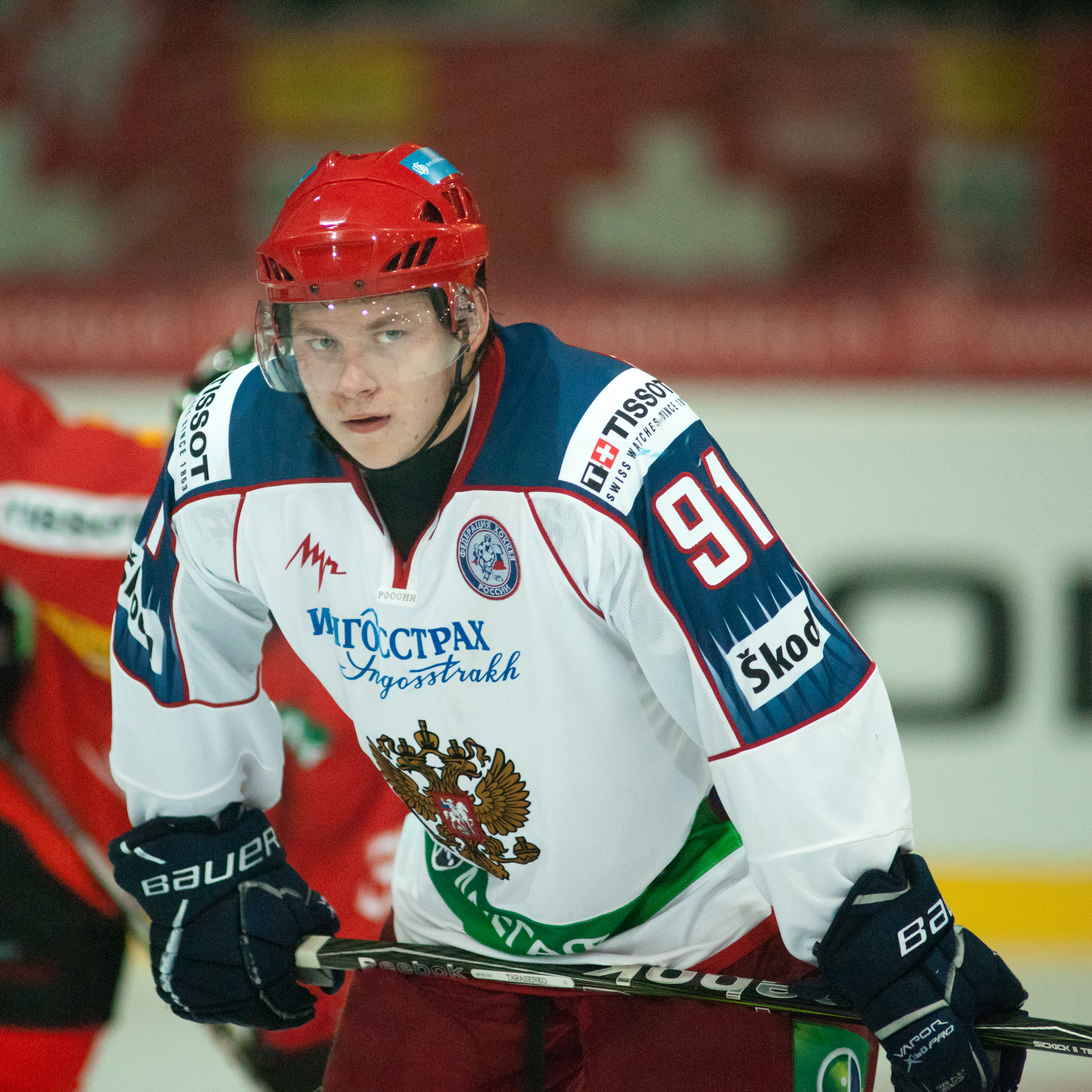 The making of this document was supported by Wikimedia CH. (Submit your project!) For all the files concerned, please see the category Supported by Wikimedia CH. Switzerland vs. Russia, 8th April 2011